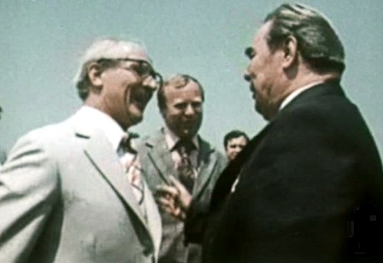 Erich Honecker meets Leonid Brezhnev